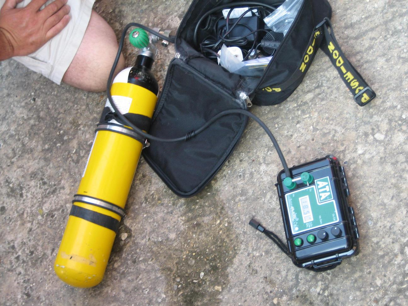 An Analox combined oxygen and helium gas analyser being used to measure a trimix fill in a 3 litre cylinder